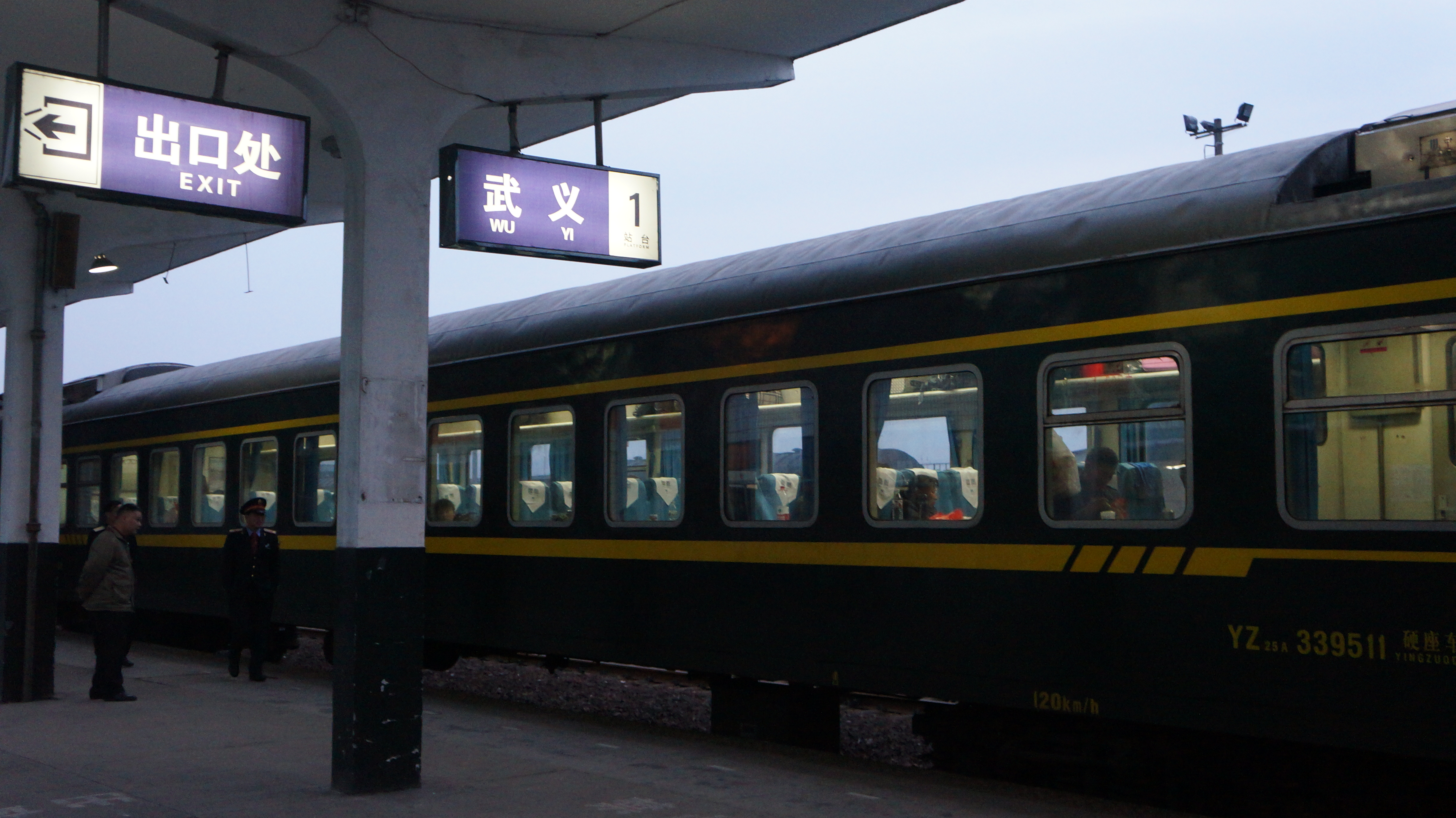 201603 A YZ25A coach at Wuyi Station